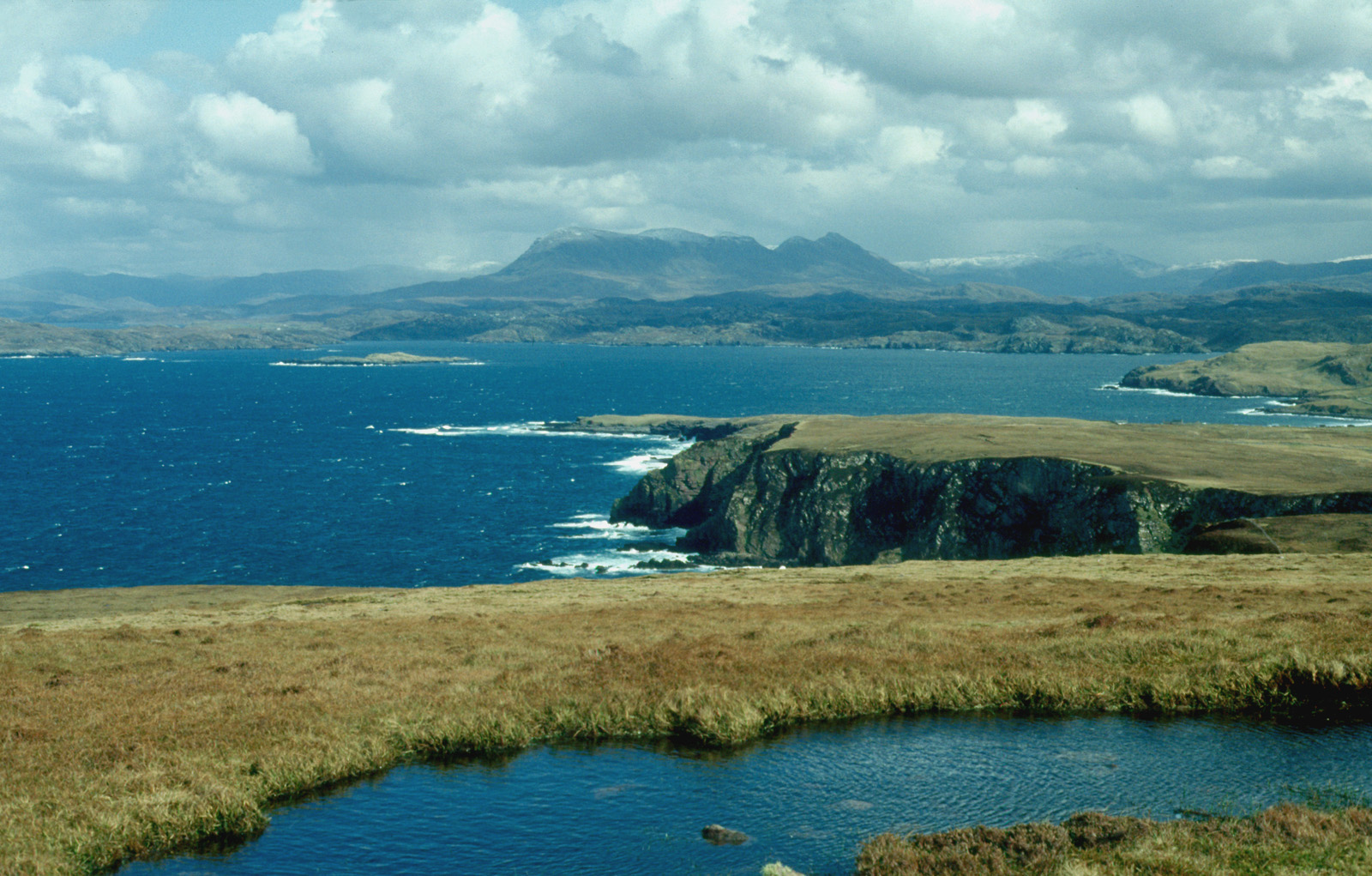 Eddrachillis Bay, located in the Northwest Highlands of Scotland